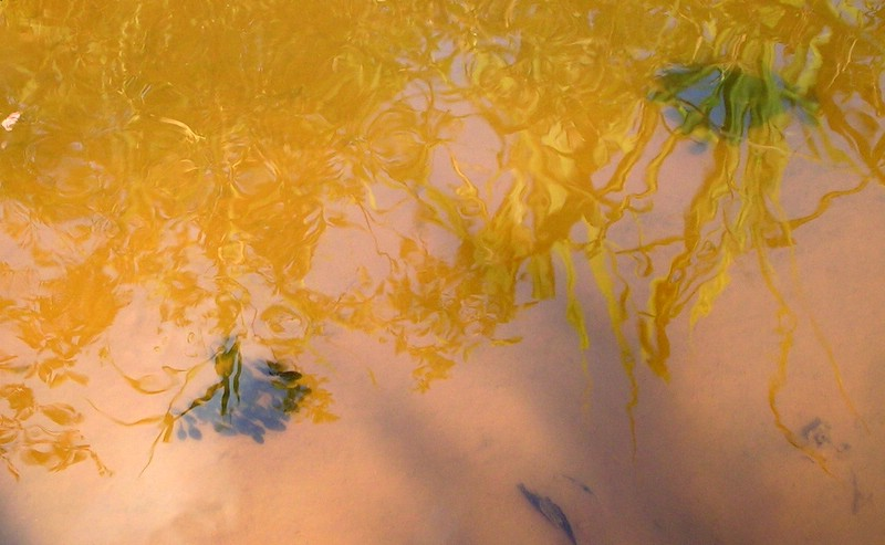 Rana curtipes tadpole school from Bhagamandala, Coorg, India